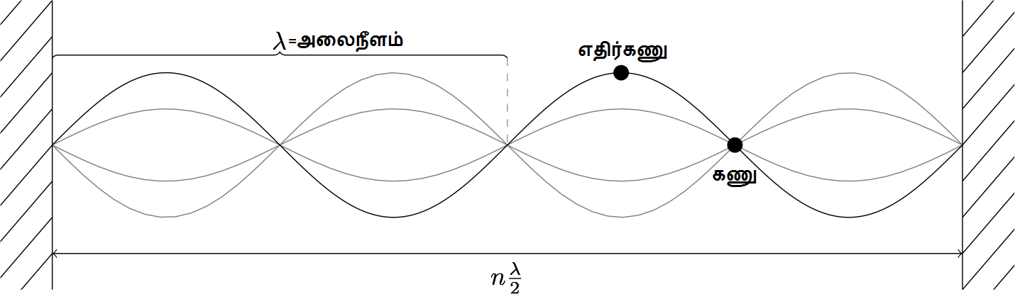 Standing Wave with node and antinode shown, wavelength and spacing needed to achieve a standing wave are also labelled